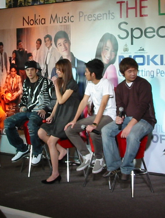 Press conf. of concert "Nokia Music Presents The Love of Siam Special Greeting" (From left to right - Mario Maurer,Kanya Rattanapetch, Witwisit Hiranyawongkul and Chukiat Sakweerakul